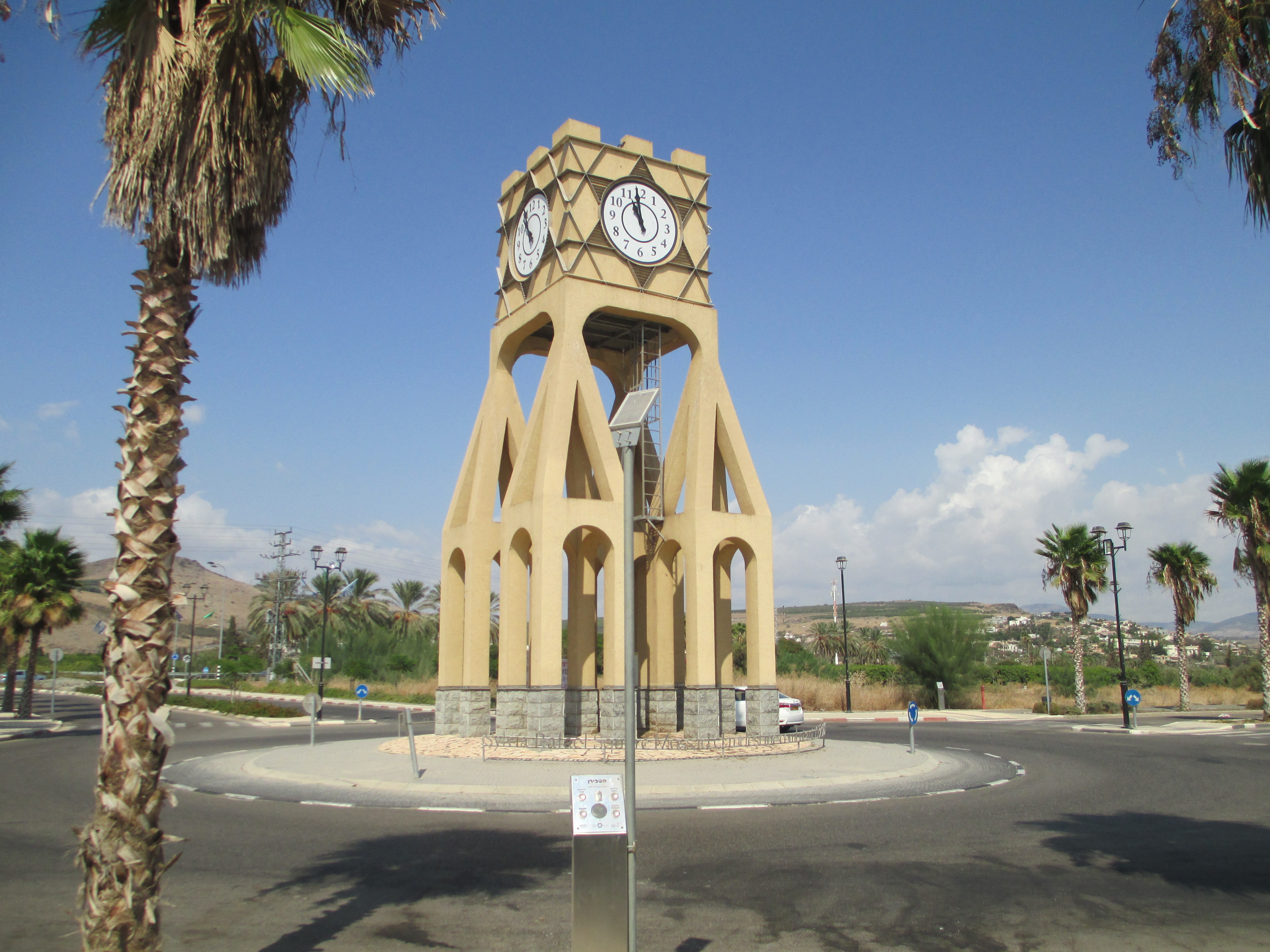 Sylvia Rafael square in Migdal